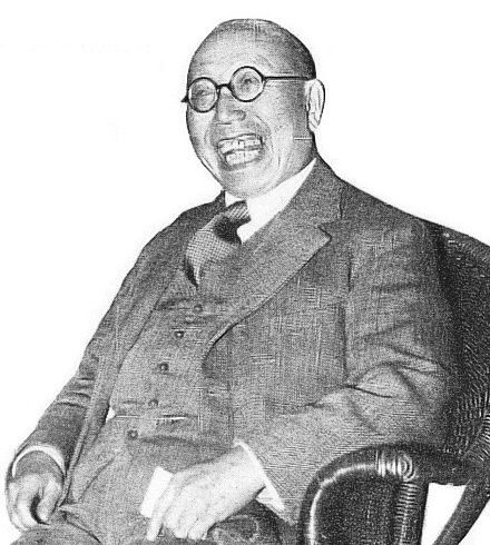 Hiroshi Minami